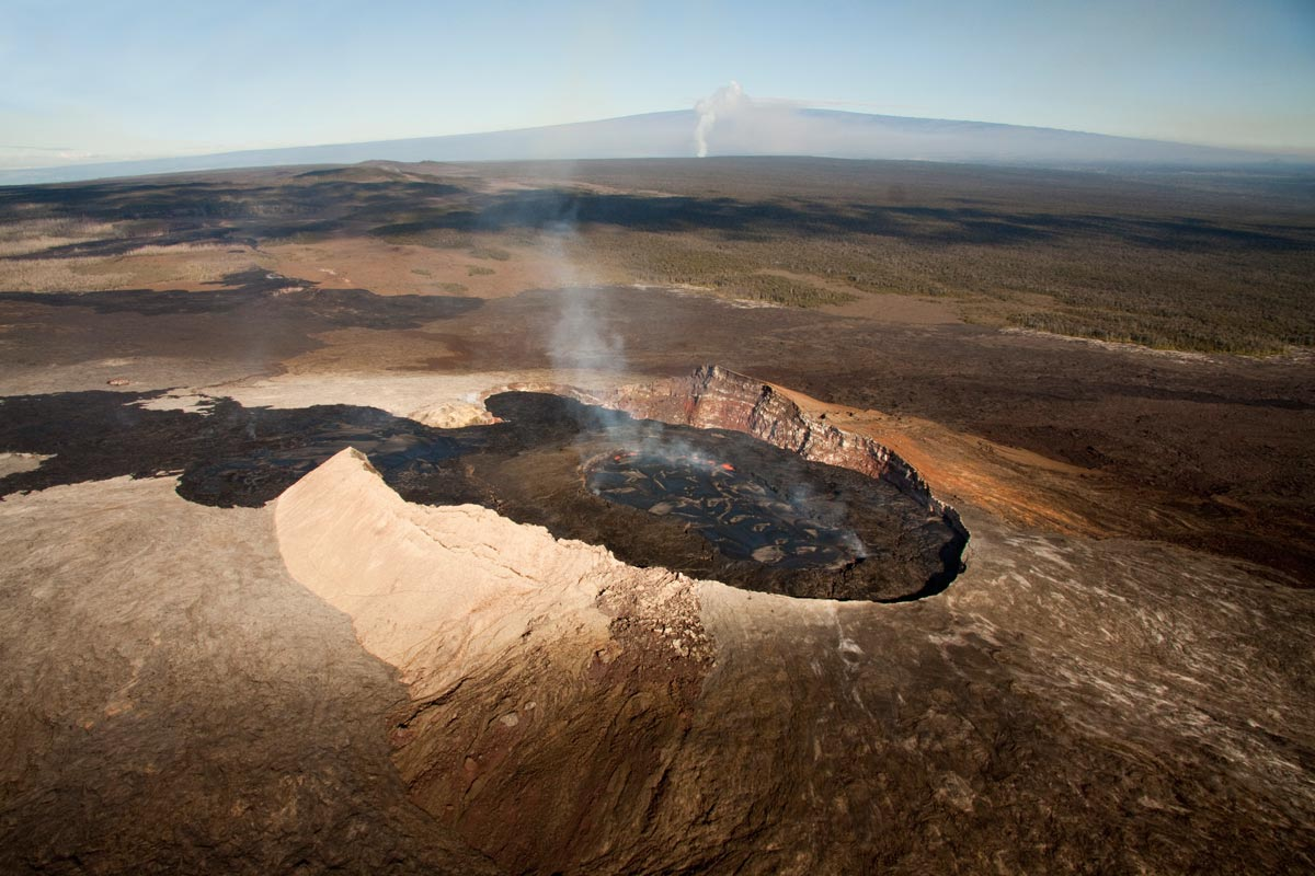 Looking up the slope of Kilauea, a shield volcano on the island of Hawaii. In the foreground, the Puu Oo vent has erupted fluid lava to the left. The Halemaumau crater is at the peak of Kilauea, visible here as a rising vapor column in the background. The peak behind the vapor column is Mauna Loa, a volcano that is separate from Kilauea.